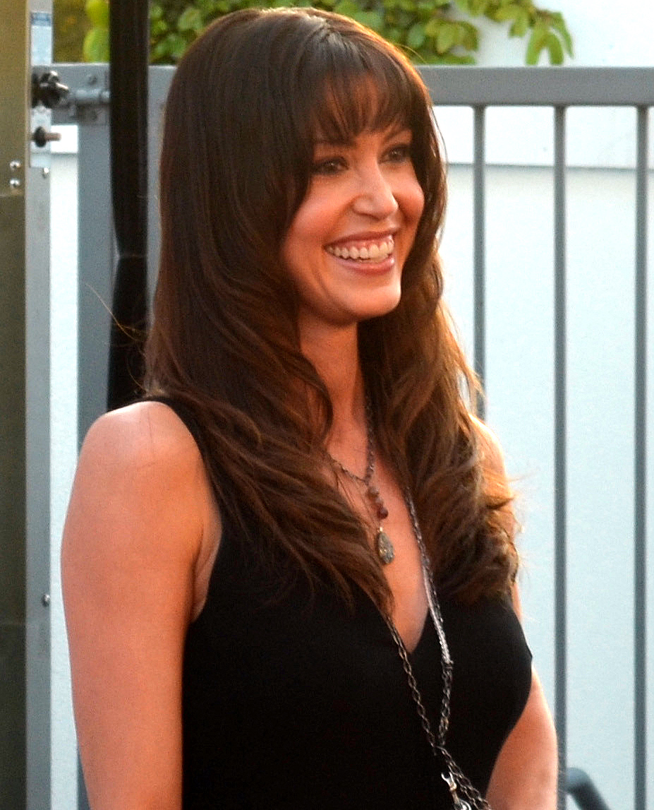 Shannon Elizabeth at the World Poker Tour Foundation’s Playing for a Better World 2012.